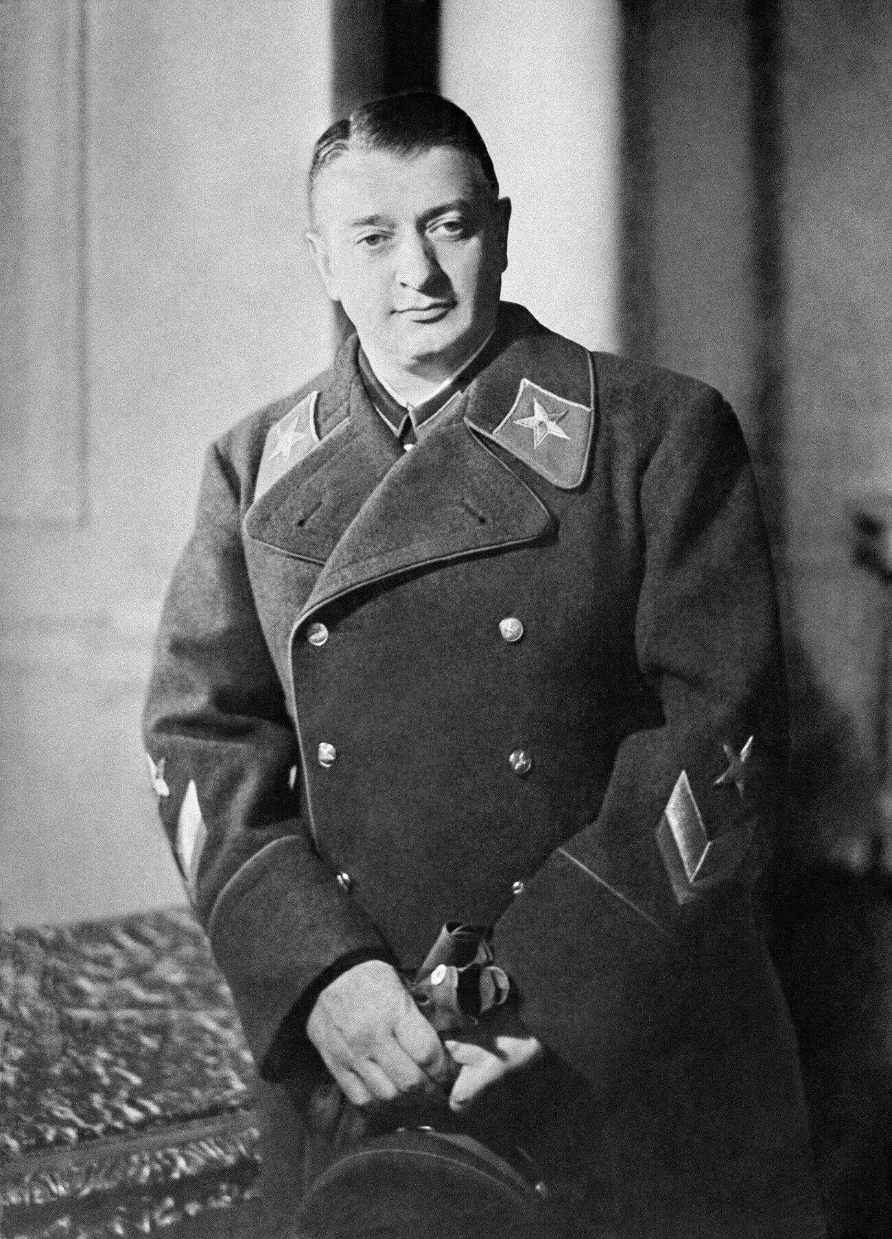 Mikhail Nikolayevich Tukhachevsky (1936)